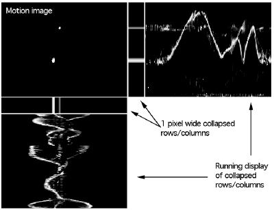 Motiongrams are created by averaging over the rows or columns of a motion image (frame differencing).